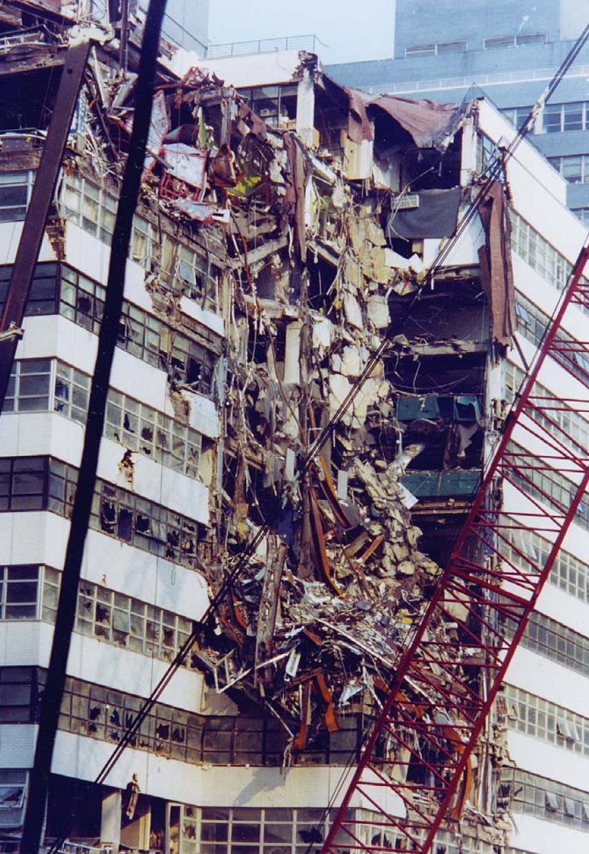 Damage to Fiterman Hall and debris from the collapse of en:7 World Trade Center on 9/11 The photo was taken by FEMA, and included in the report. The report can be found here